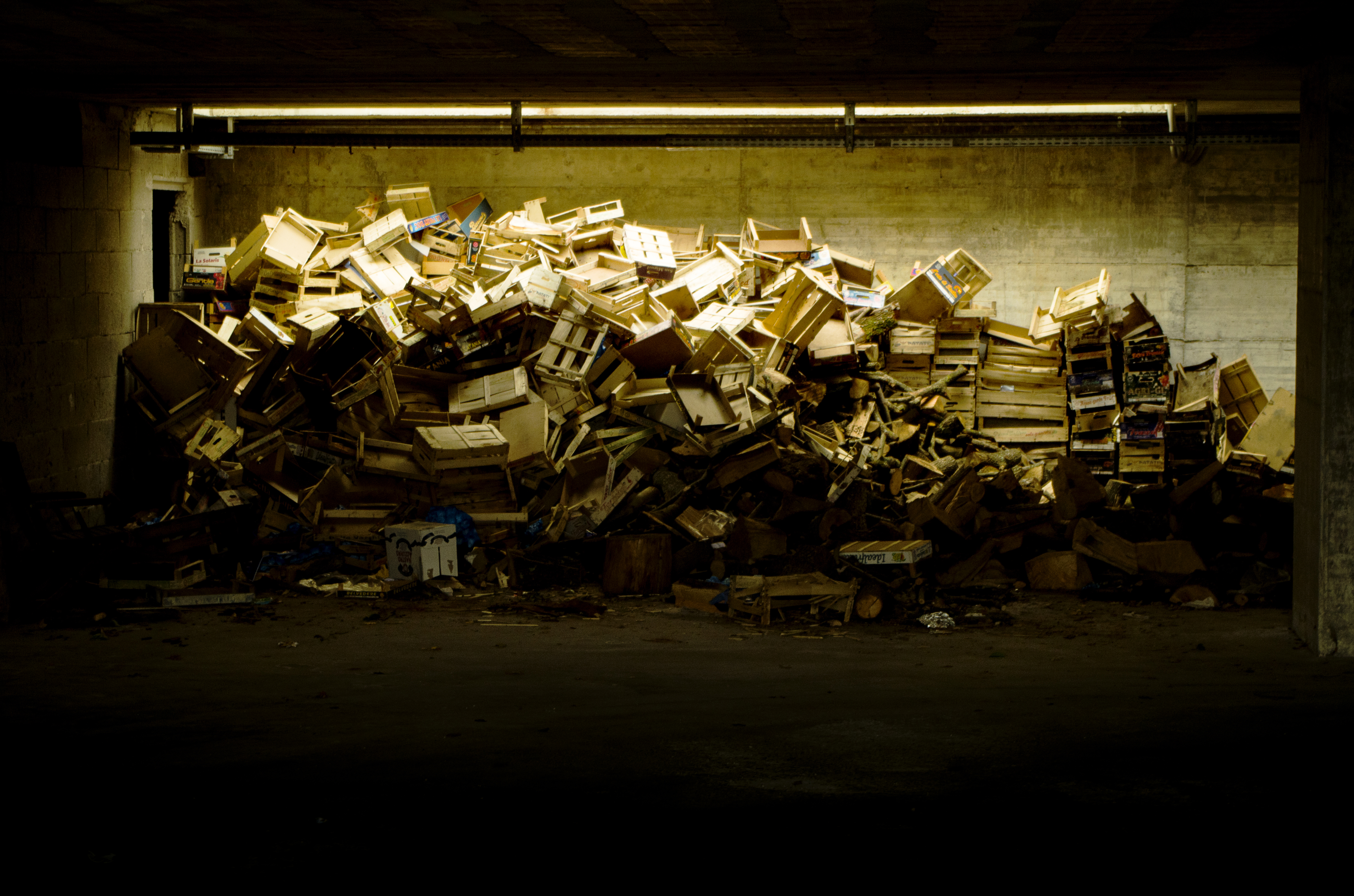 Number of fruit crates ready to be disposed of - Italy